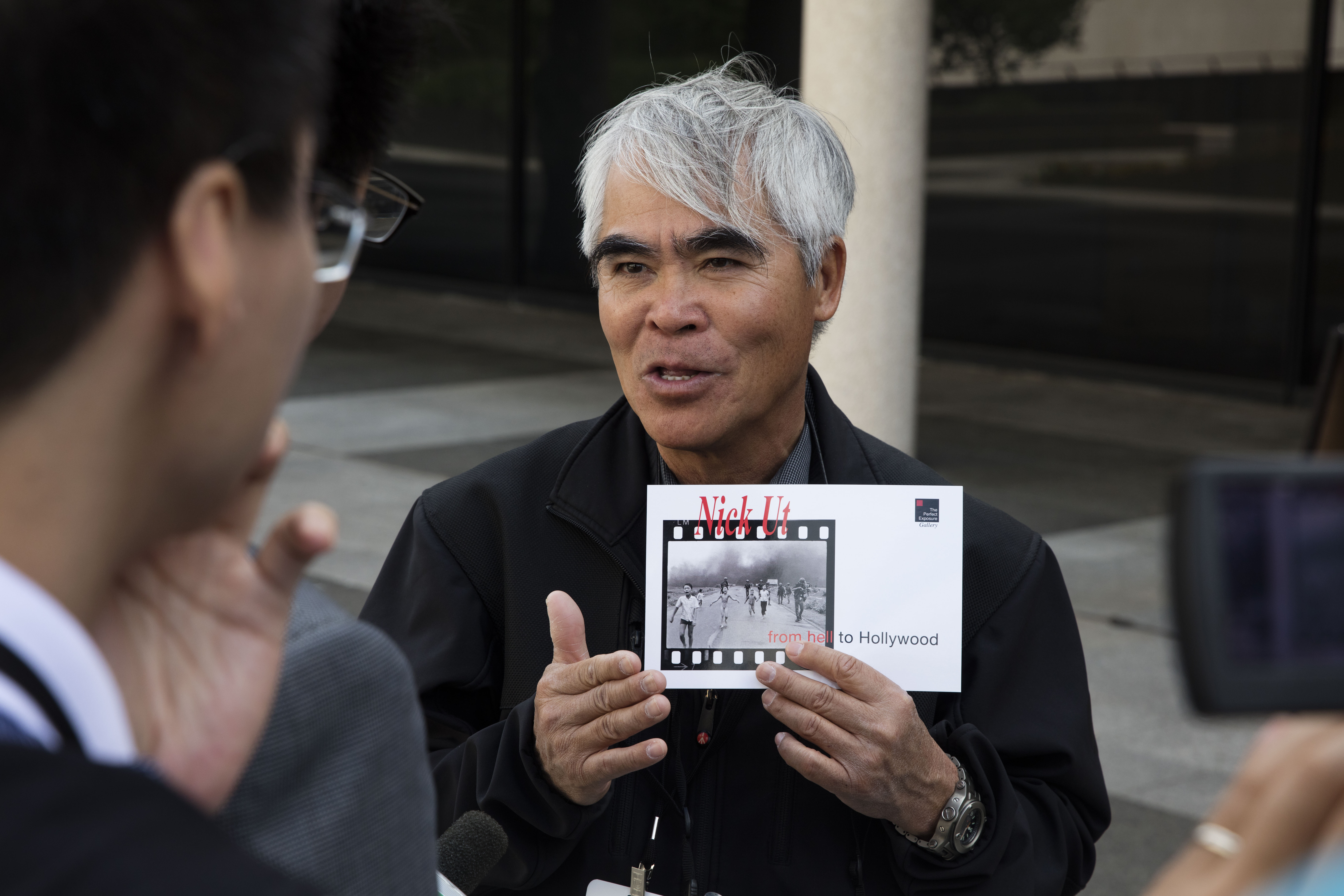 Pulitzer Prize-winning photographer Nick Ut speaks with the press on Thursday, April 28, 2016, outside of the LBJ Presidential Library, which is hosting a three-day Vietnam War Summit. Ut won a Pulitzer in 1973 for his photo of Vietnamese children fleeing their village after a napalm bombing. As part of the Vietnam War Summit, UT participated in a panel discussion called "The Power of a Picture," with former White House photographer David Hume Kennerly, who also won a Pulitzer Prize for his Vietnam War coverage. LBJ Library photo by David Hume Kennerly 04/28/2016. LBJ Library photo by David Hume Kennerly 04/28/2016.